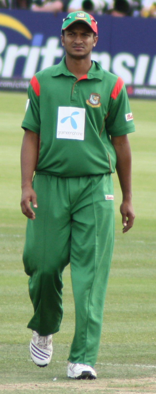 Shakib Al Hasan in the field during the 2nd ODI against England at the County Ground, Bristol. Bangladesh recorded their first victory over England in any form of cricket in this match.